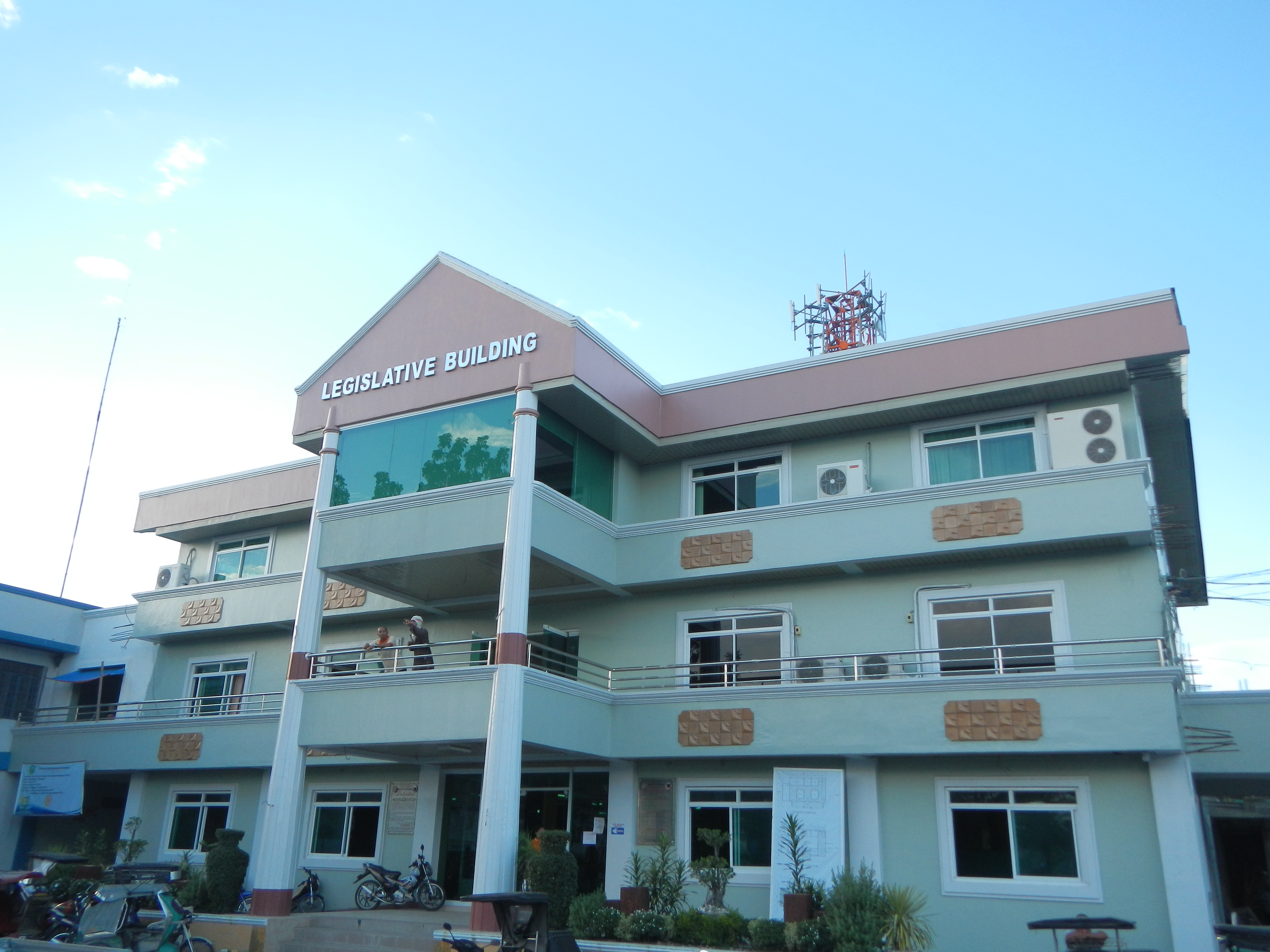 Bayambang, Pangasinan[1]